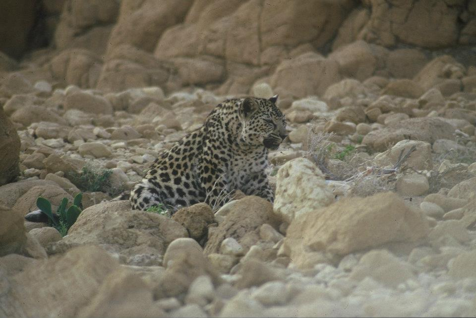 Leopard in the Judean desert photographed by